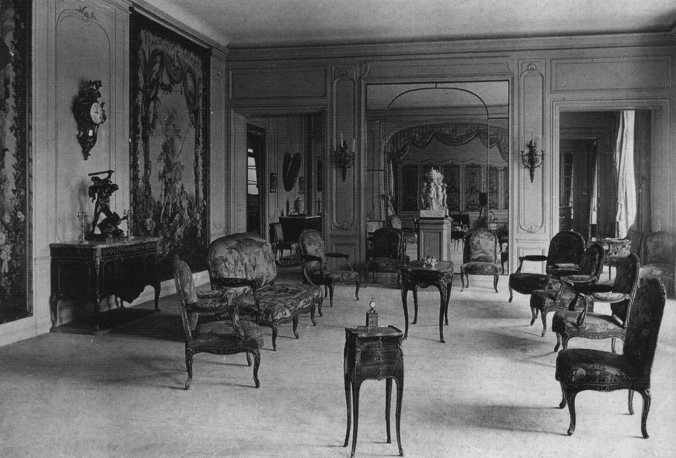 The Drawing Room of Comte Isaac de Camondo in his Apartment at Avenue des Champs-Élysées No. 82 (c. 1910). The furniture is original from the 18th Century, The marble-clock before the mirror is called Trois Grâces by Étienne Maurice Falconet (c. 1770), today in the Louvre.